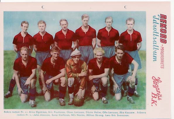 Höganäs BK in ther heyday, when they during three decades (1930s-60s) several times was close to get promoted to the top flight Allsvenskan.